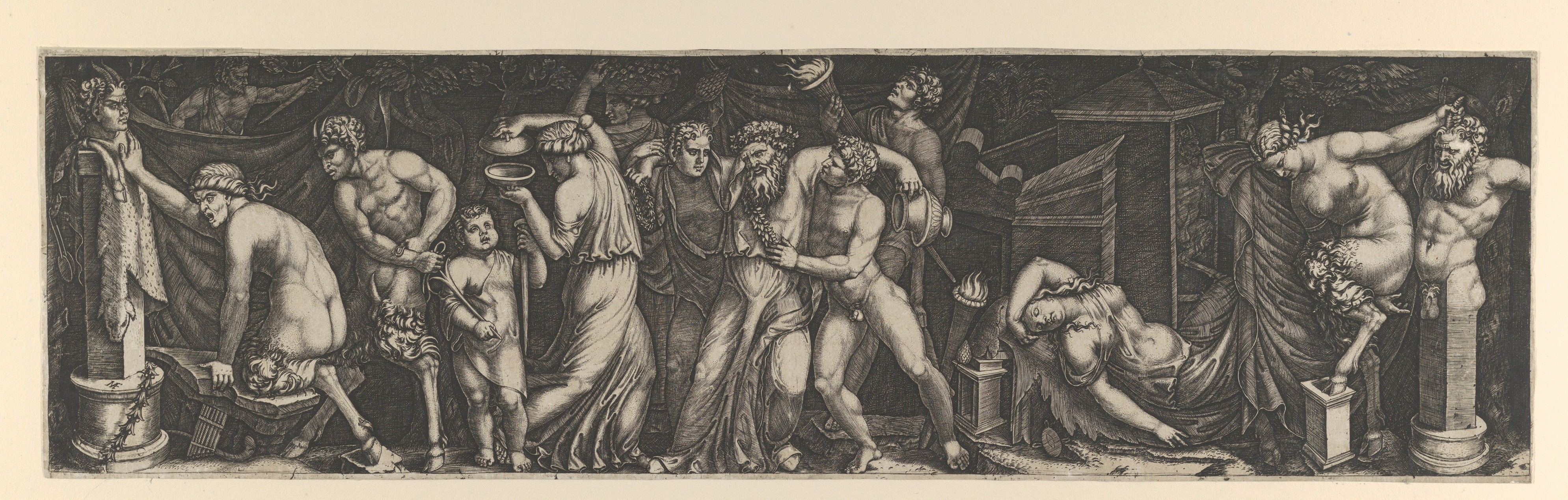 Print; Prints